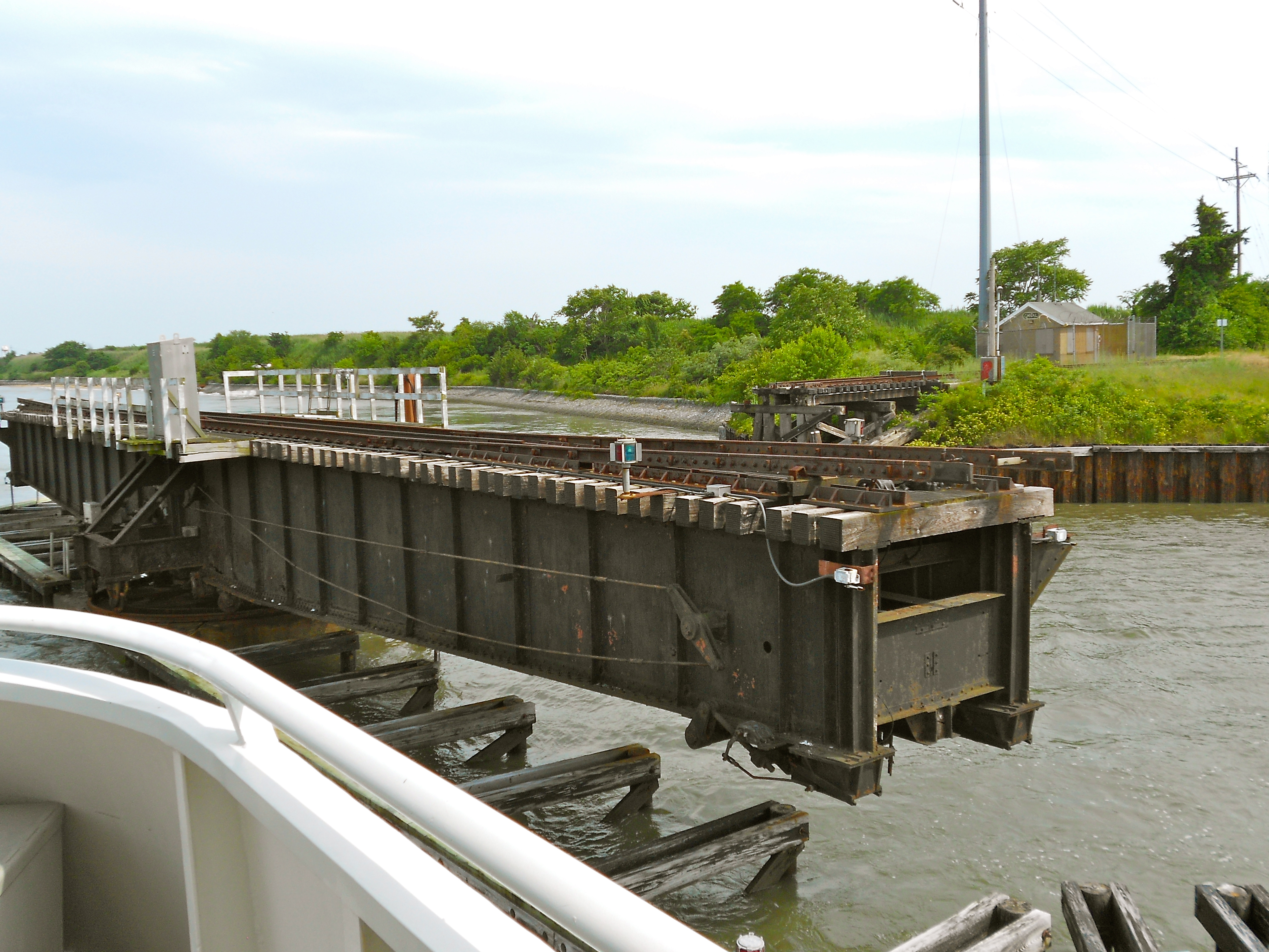 Old railroad bridge - a turntable type - across Cape May Canal - between Cape May Island and Lower Township, New Jersey.